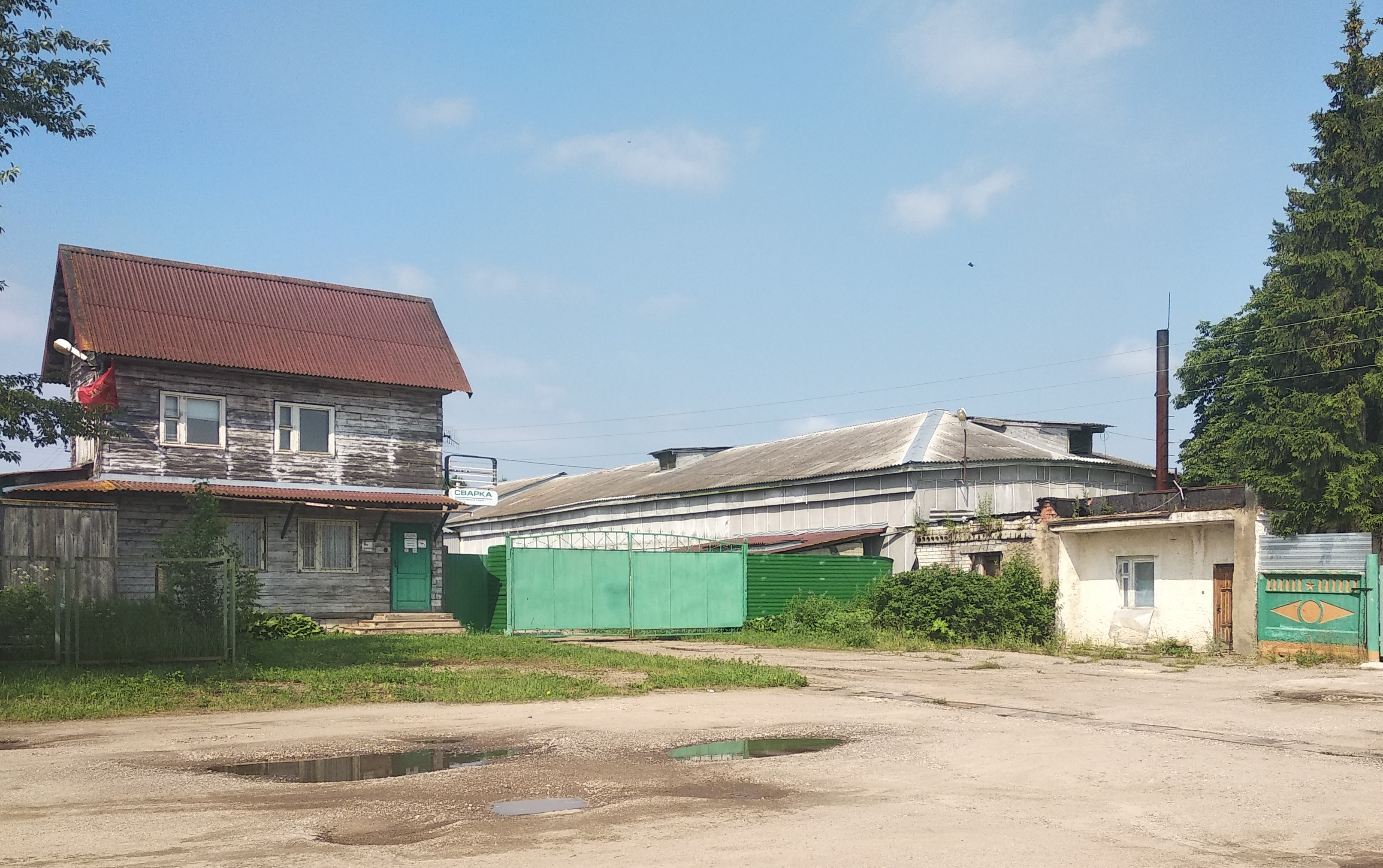 Rostov steel-rolling plant "Svarka" (Yaroslavl region, near the village of Puzhbol).